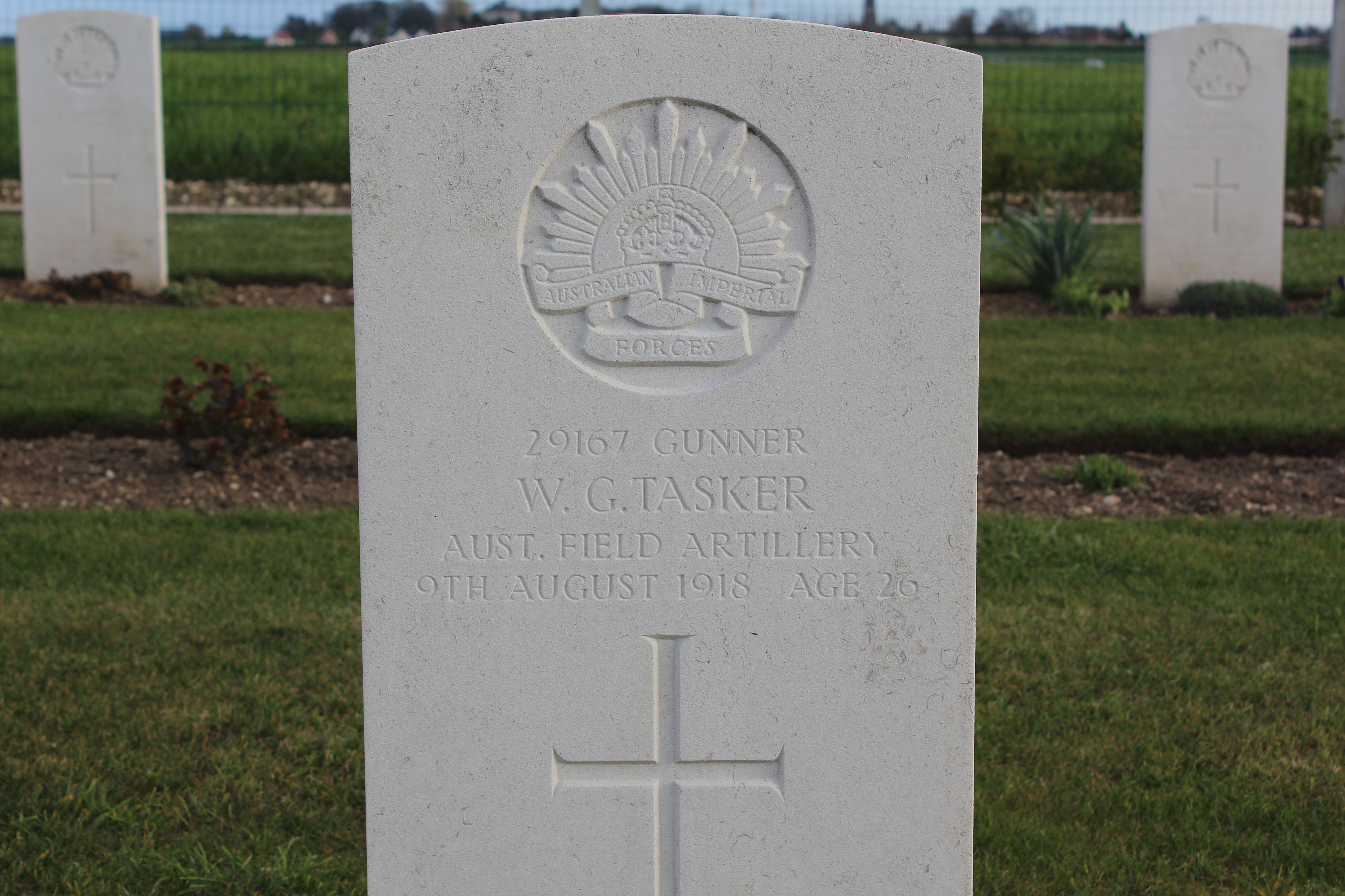 Photo of the grave of Australian soldier and RU player William Tasker Other information Grave located within the Australian War Memorial at Villers-Bretonneux, Picardie, France